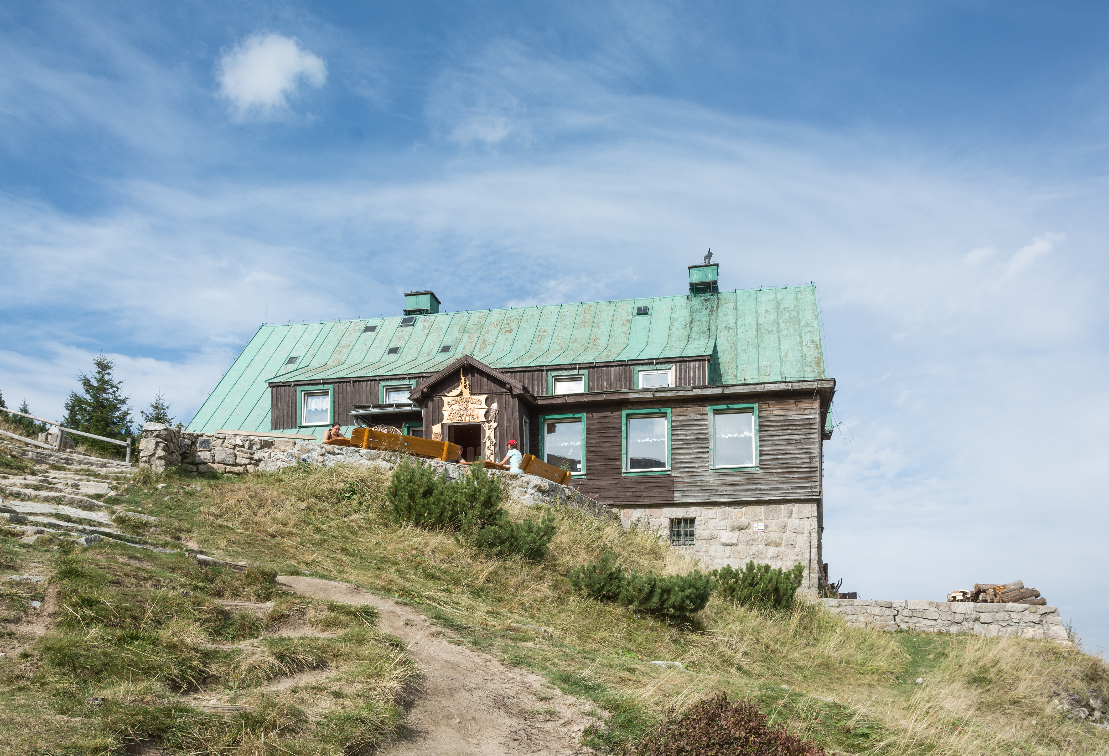 Pod Łabskim Szczytem mountain hut